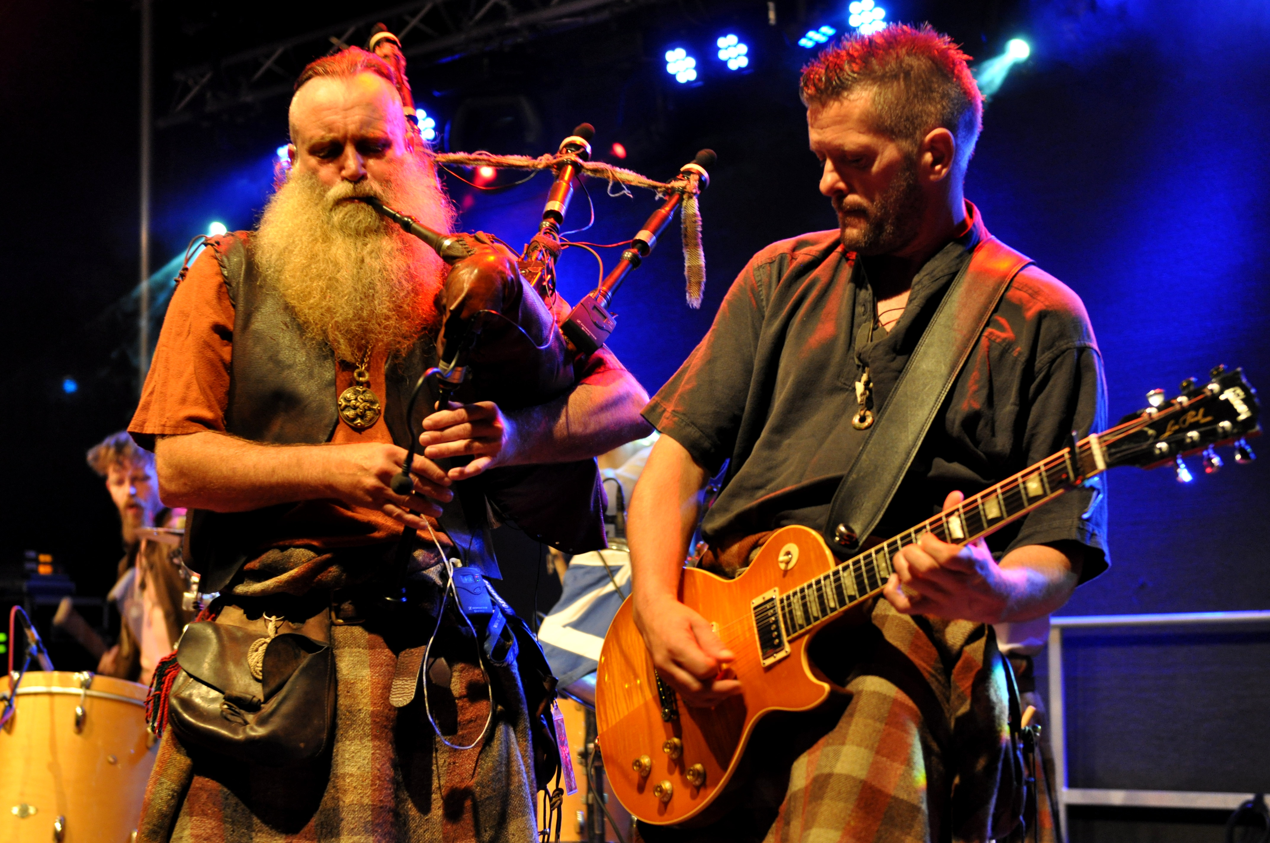 Saoir Patroil (SCT), Folk am Neckar 2015, Mosbach-Neckarelz, Germany Festivalsommer This photo was created with the support of donations to Wikimedia Deutschland in the context of the CPB project "Festival Summer".